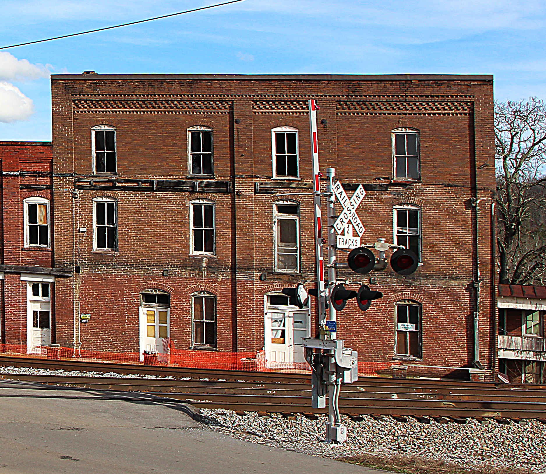 Smith House, South Main Street, Bulls Gap, TN